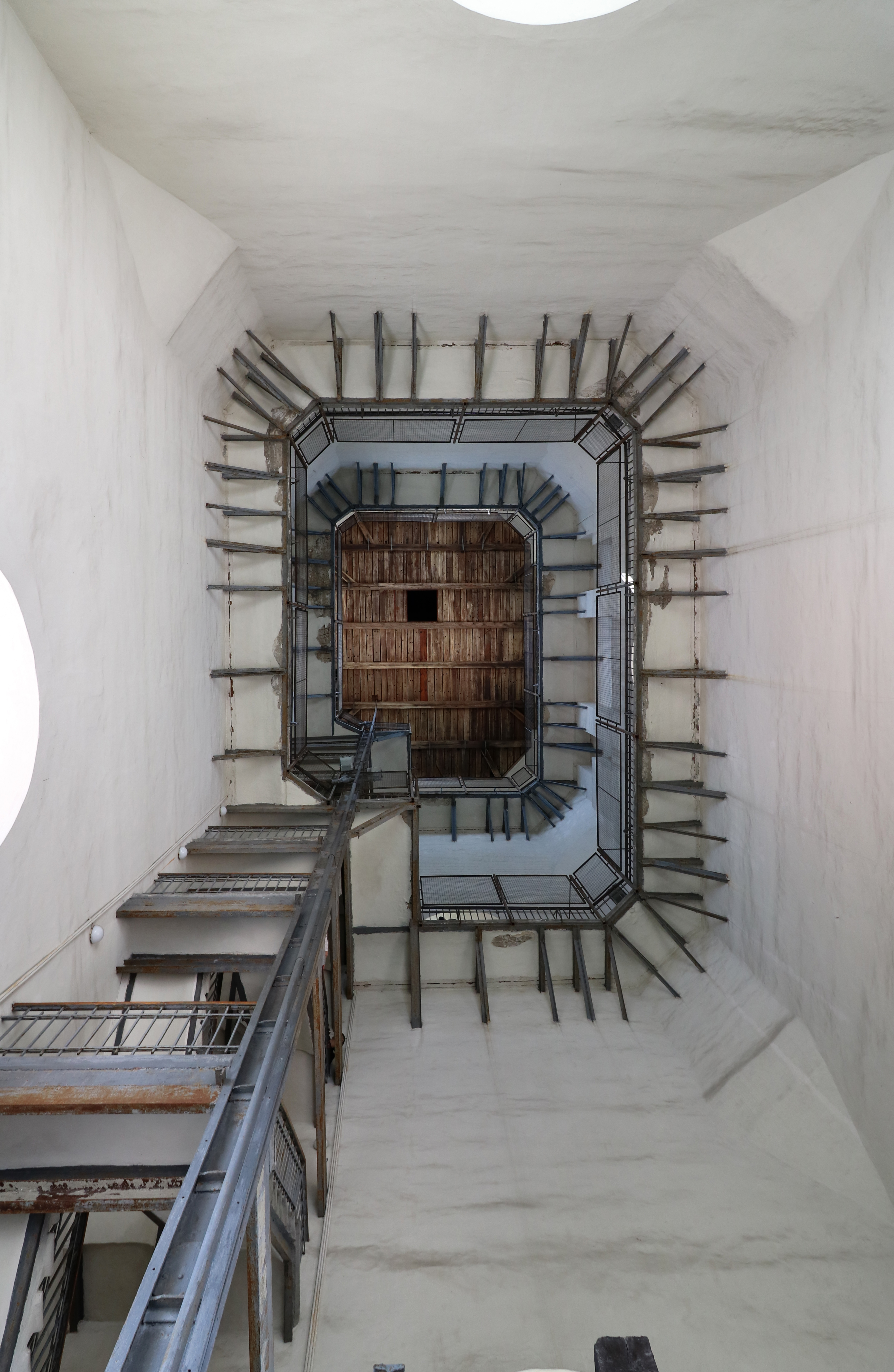 The bell tower of Saint Sophia Cathedral in Kiev 1699-1706. Interior of the dome and staircase. Look up at the ceiling from the second tier